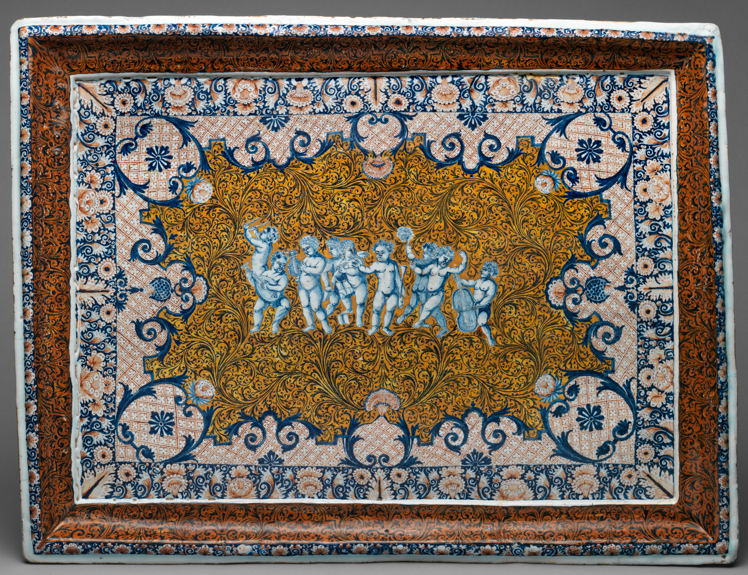 French, Rouen; Tea tray; Ceramics-Pottery